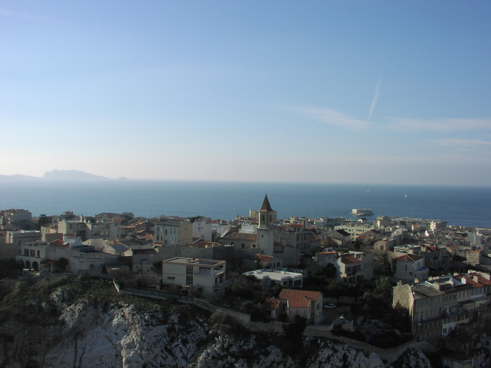 Endoume church